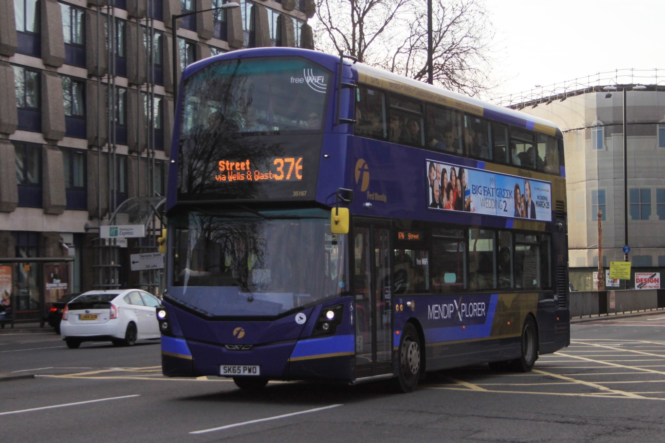 First Somerset & Avon's StreetDeck number 35167 (registration SK65PWO) heads out of Bristol on the 'Mendip Explorer' route 376 to Street in Somerset.